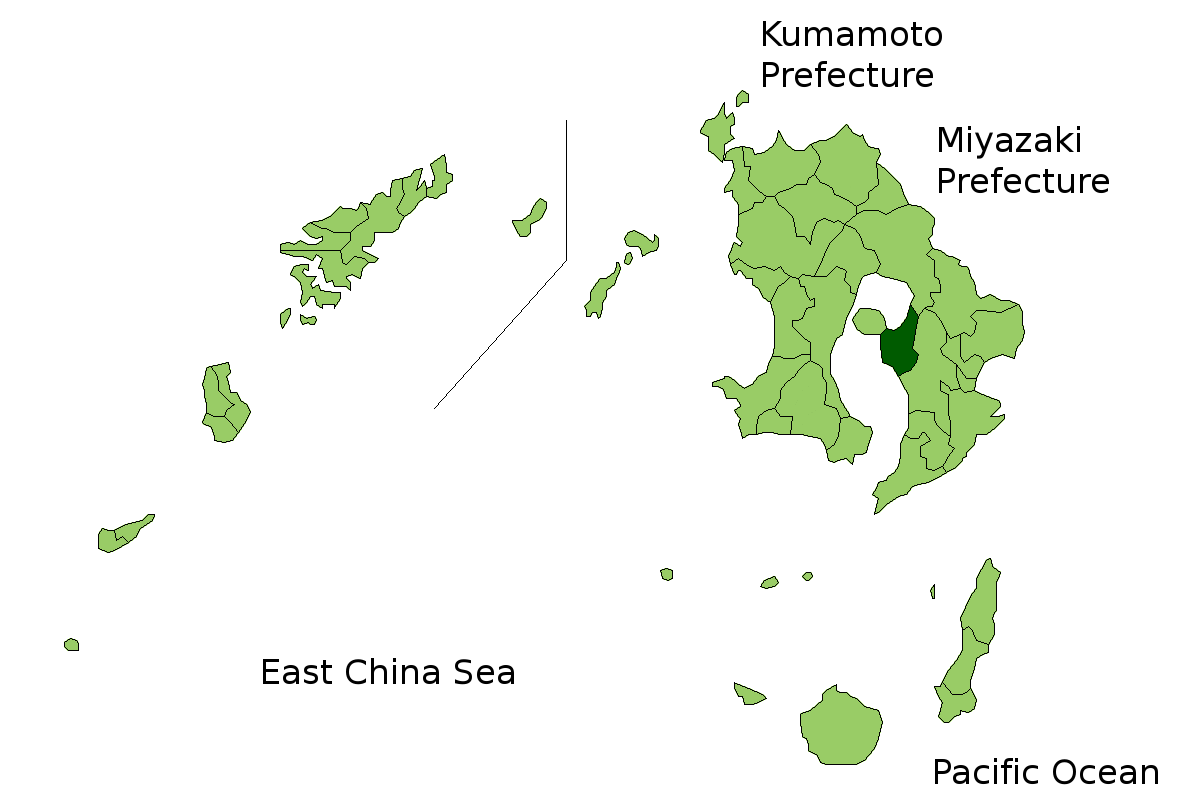 Location Map of Tarumizu in Kagoshima Prefecture, Japan